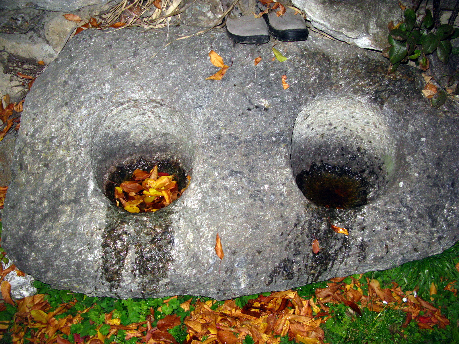 Pestle made of stone found in the village Obermillstatt near Lake Millstatt (Millstätter See), district Spittal an der Drau in Carinthia / Austria / EU. The pestle was during excavation works in the river Pöllandbach found in two-meter depth by the farmer and gravedigger Alois Auer vlg. Messner recovered.